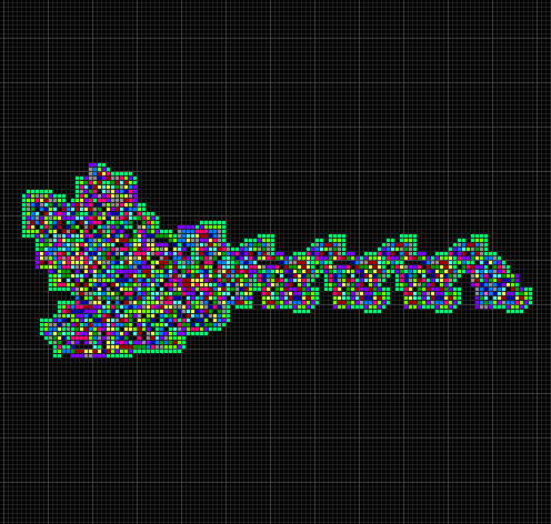 The n-color extension of Langton's Ant for the move sequence LLRRRLRLRLLR, at 36437 generations.